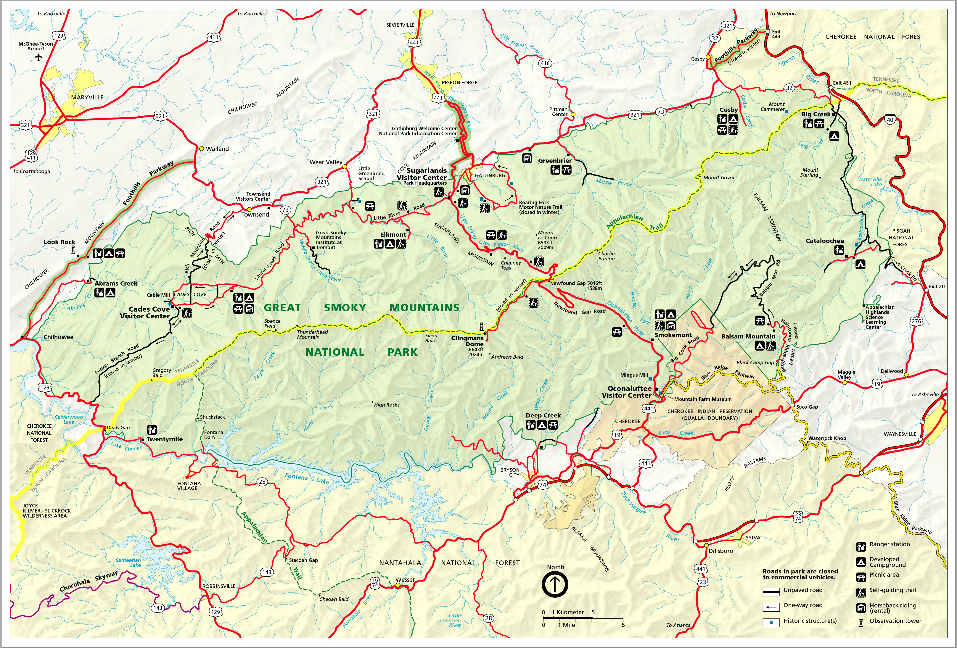 Map of Great Smoky Mountains National Park